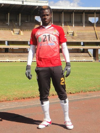 Hans Kwofie in Ghana National Team Camp in Kenya 25 February 2015 Kasarani Stadium, Kasarani, Kenya Photographer email id